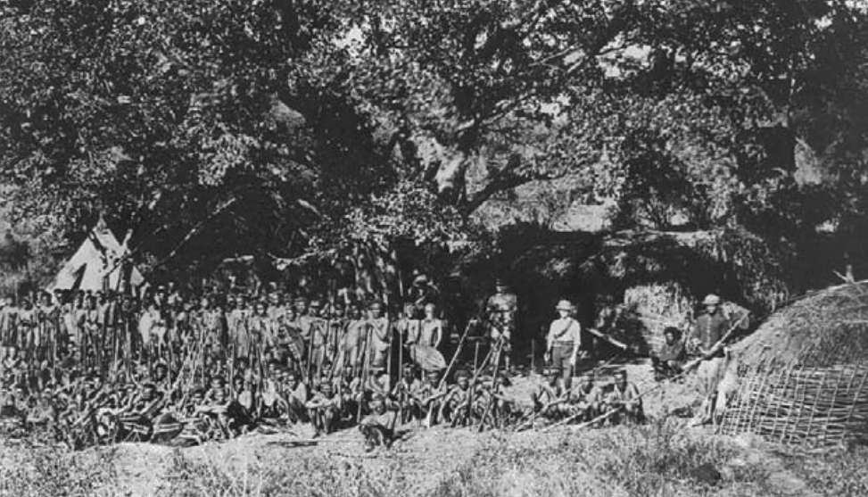 Natal border guard of Colonial Defensive District No. VI at White Rock Drift 1879